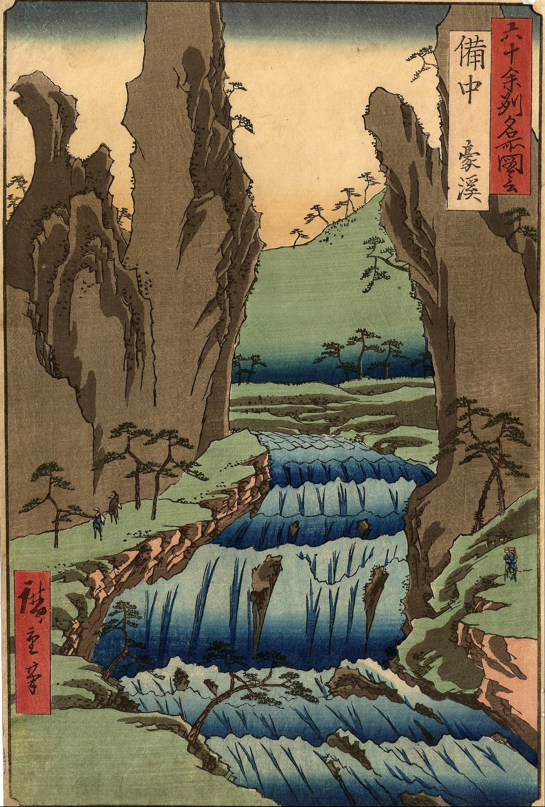 Bitchū Gokei of the Famous Scenes of the Sixty States.